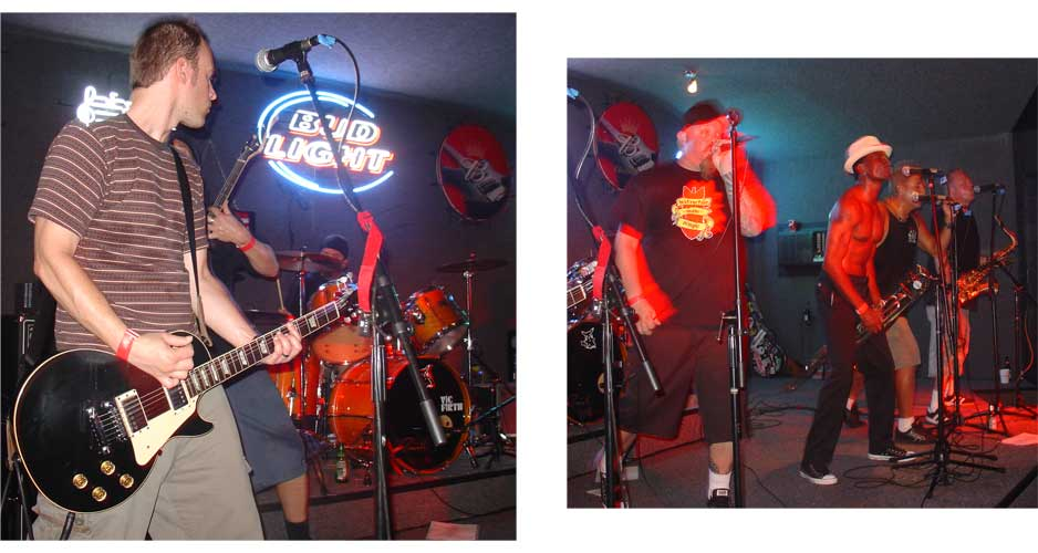 Buck-O-Nine live photo